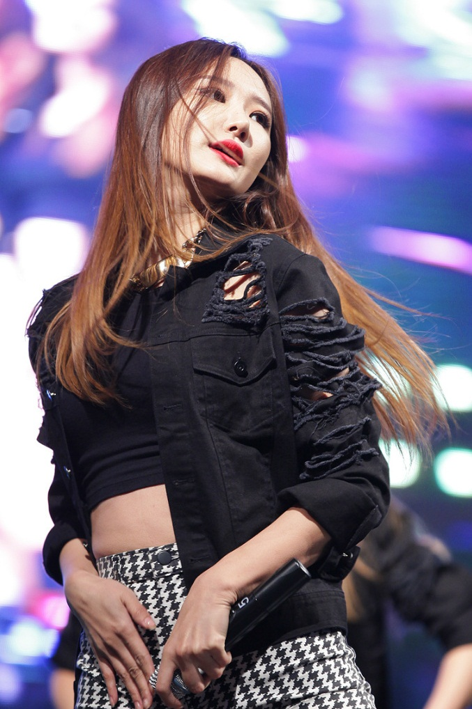 151001 가천대